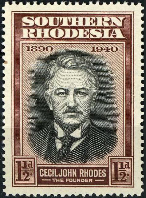 Postage stamp of Southern Rhodesia, 1940, 1,5d, SG#55. Cecil John Rhodes